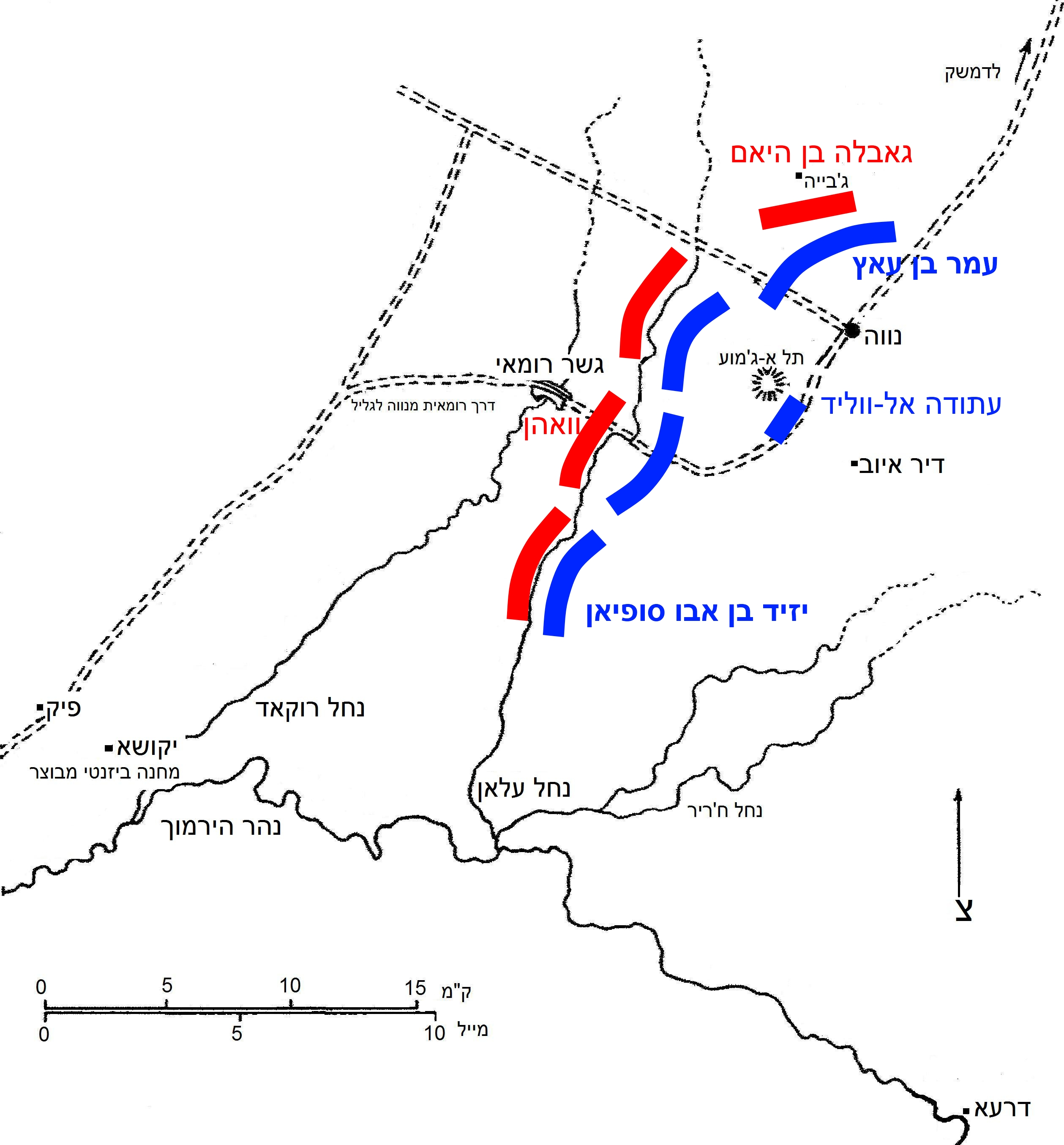 the battle of yarmouk first day. based on Nicolle book Yarmuk 636 A.D.: The Muslim Conquest of Syria